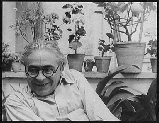 Giuseppe (Pino) Orioli (1884-1942), Italian bookseller and publisher, photographed by Carl Van Vechten on June 24, 1935.